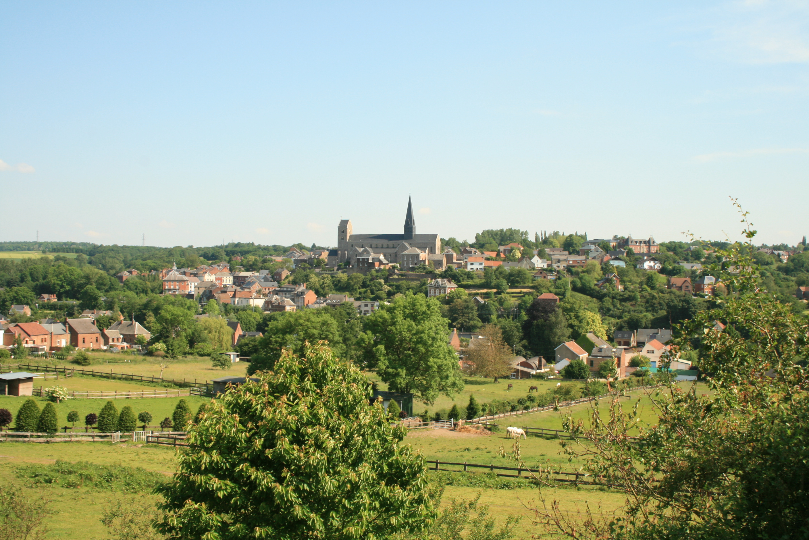 Lobbes, Hainaut, Belgique